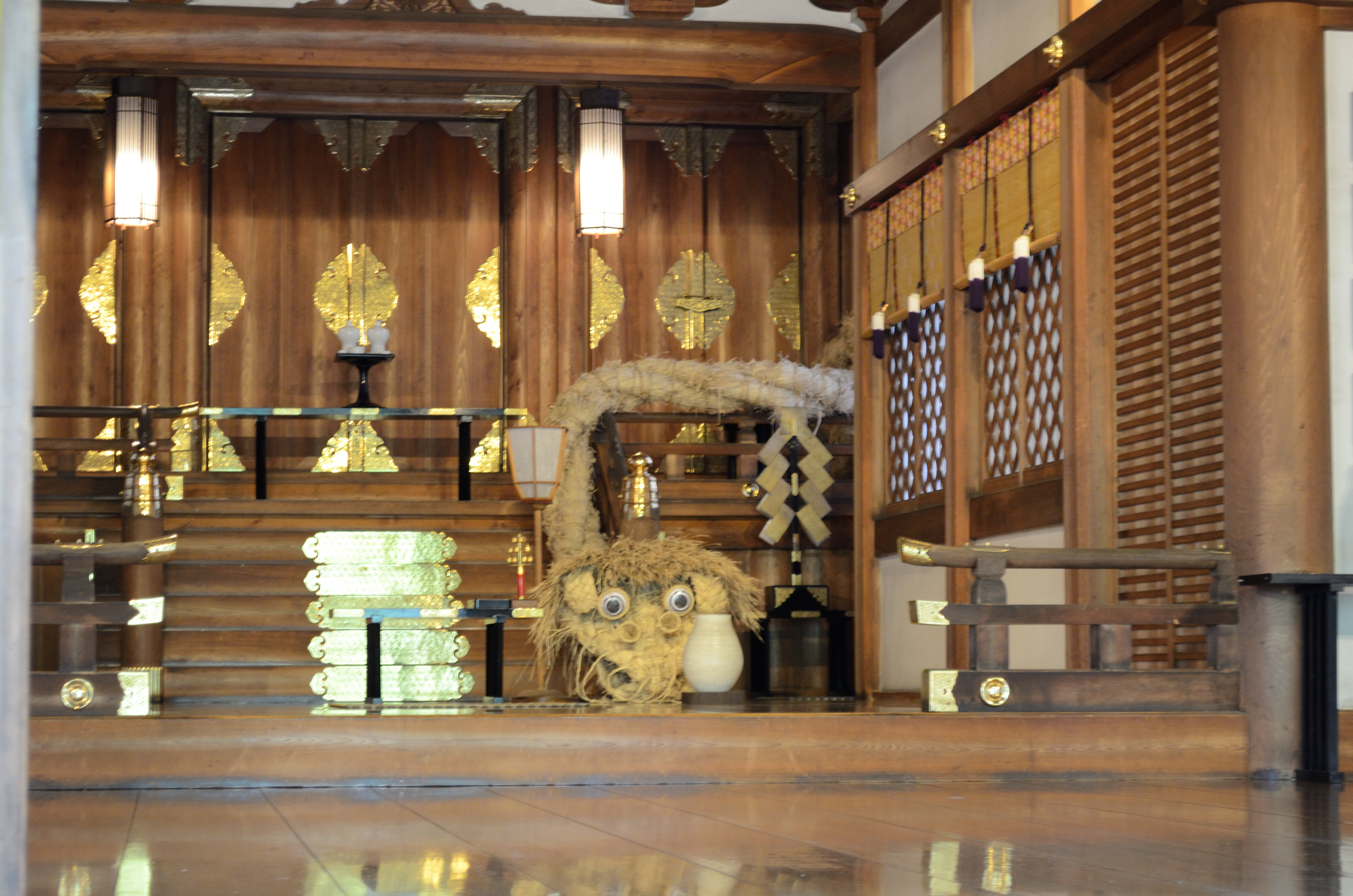 Straw snake in the main hall of Okusawa Shrine in Tokyo.